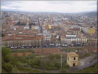 Cosenza2.jpg I took this picture myself and release it to the public domain NDN